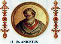 Portrait of Pope Anicetus in the Basilica of Saint Paul Outside the Walls, Rome